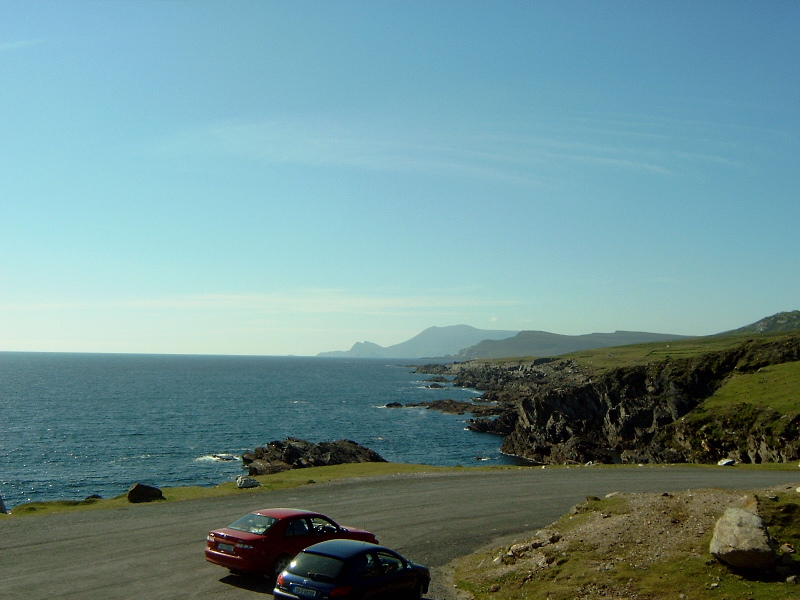 Overlooking the west coast of Achill Island on the 'Atlantic Drive' road.